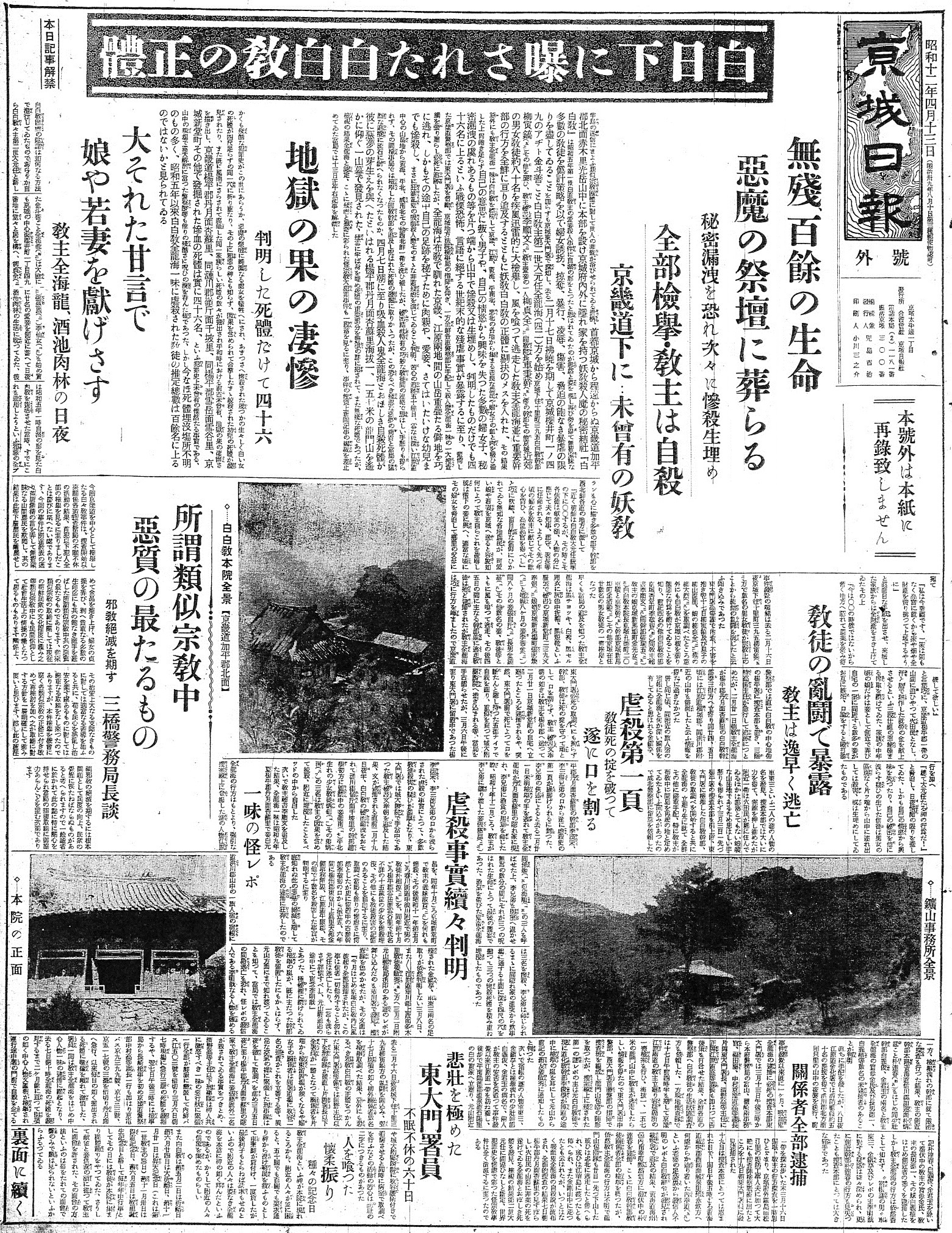 Keijo Nippo Extra Edition newspaper clipping (13 April 1937 issue)